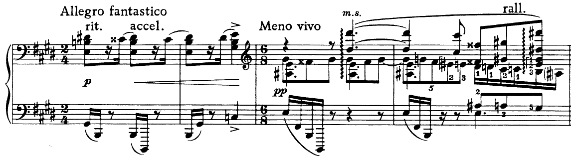 mm.281-284